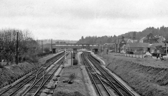 Broadstone Station. View northward, towards Blandford, Templecombe and Bath (left tracks) and Wimborne, Salisbury and Brockenhurst (right tracks). Ex-London & South Western (L&SW) Poole (also Hamworthy Junction) - Salisbury/Brockenhurst via Wimborne lines; southern end of Somerset & Dorset Joint (L&SW & Midland) line to Blandford, Templecombe and Bath. The passenger services via Wimborne from Salisbury and from Brockenhurst to Poole ceased (also the line to Hamworthy Junction closed) 4/5/64 but goods continued until 2/5/77. The S&DJ closed to passengers 7/3/66, but remained open for goods as far as Blandford for a year or so longer.